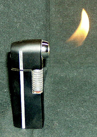 Lighter for pipe smoking. The fire gushes sideways so that it to be easy ignite it.